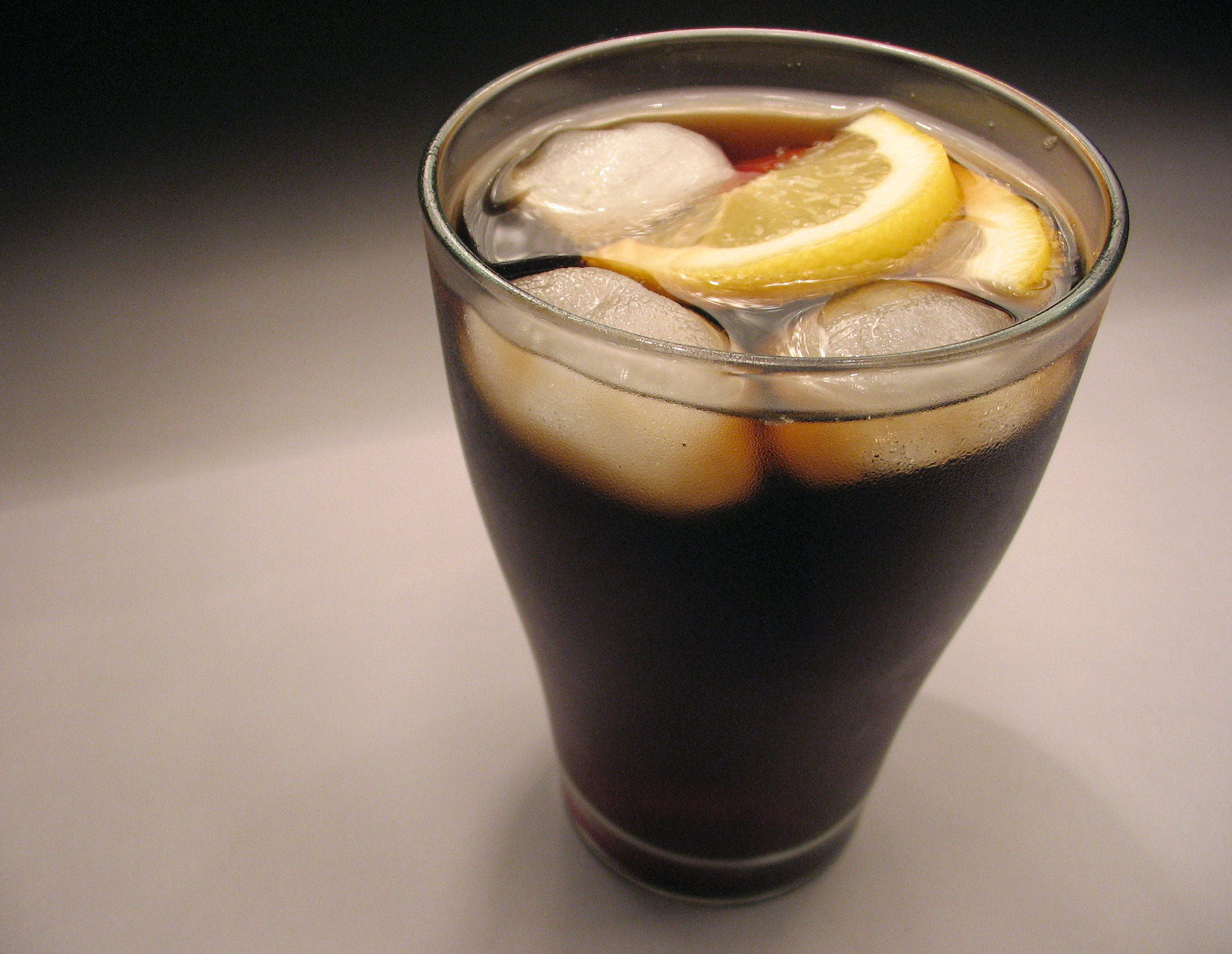 A glass of cold cola with three icecubes and two lemon pieces.